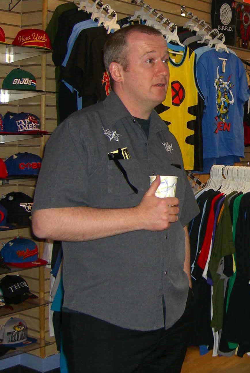 Writer Garth Ennis at an April 19, 2012 signing for The Shadow (volume 5) #1 at Midtown Comics Downtown in Manhattan. In the photo, Ennis is sharing a bottle of Dewar's whiskey that a fan gave to him as a gift, with some employees of Midtown Comics and the photographer. This photo was created by Luigi Novi. It is not in the public domain, and use of this file outside of the licensing terms is a copyright violation.